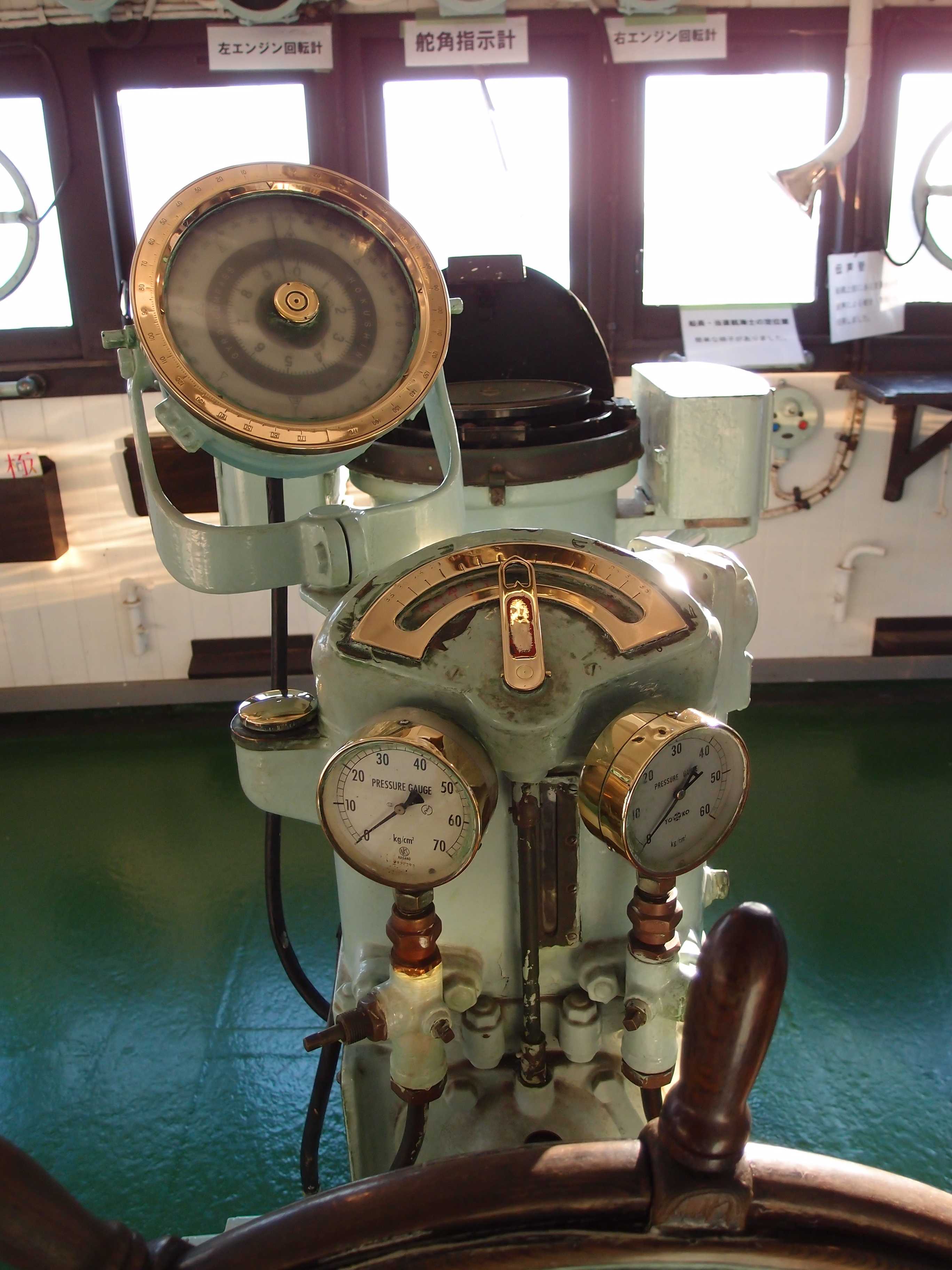 Icebreaker Soya @ Maritime Museum @ Tokyo